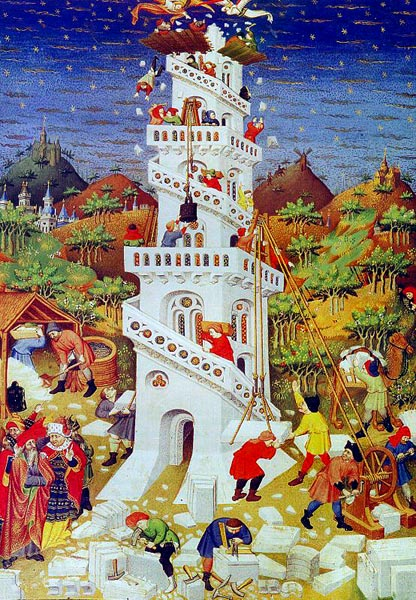 Tower of Babel, Illumination on parchment, picture of his Book of Hours, 41 x 28 cm, British Library, London